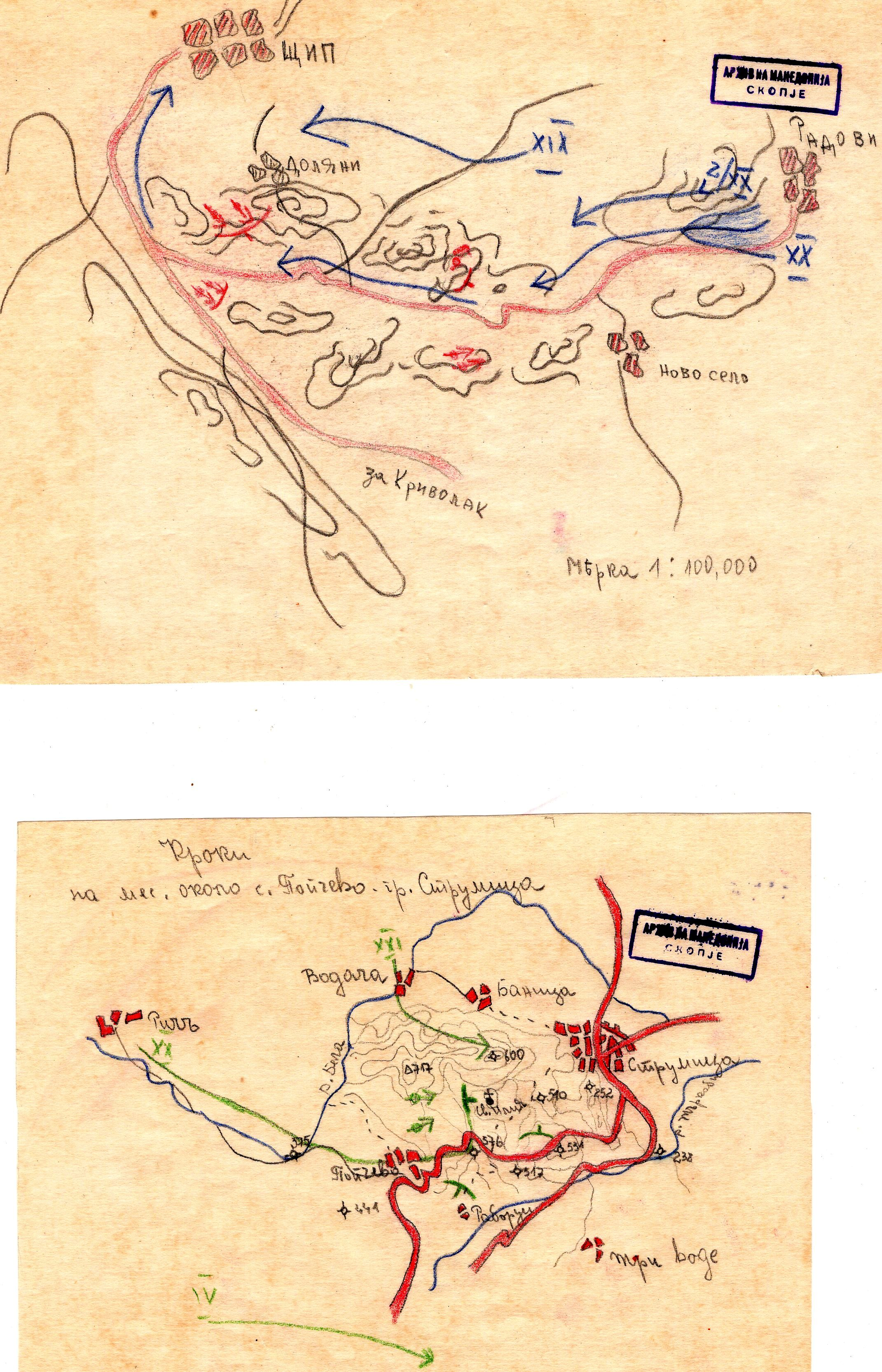 An operation diary of the 20 brigade of the 51 division, etc (15 December 1944). This media file is produced by Wikipedian in Residence in Category:Wikipedian in Residence at DARM in 2017.